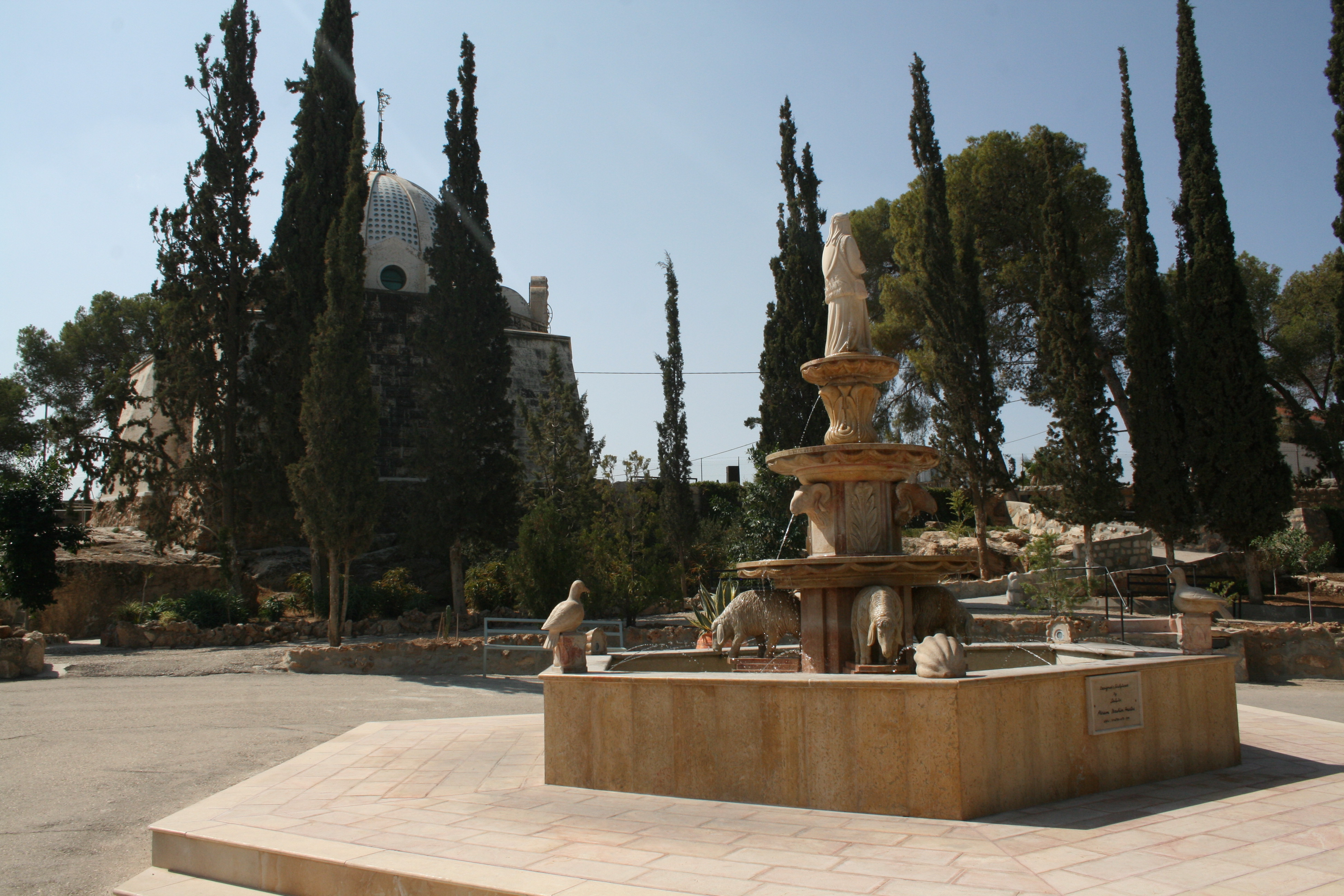 Roman Catholic church of Shepherds Field Chapel, Bethlehem, Palestine